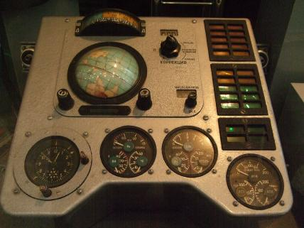 Vostok 1 spacecraft control panel.